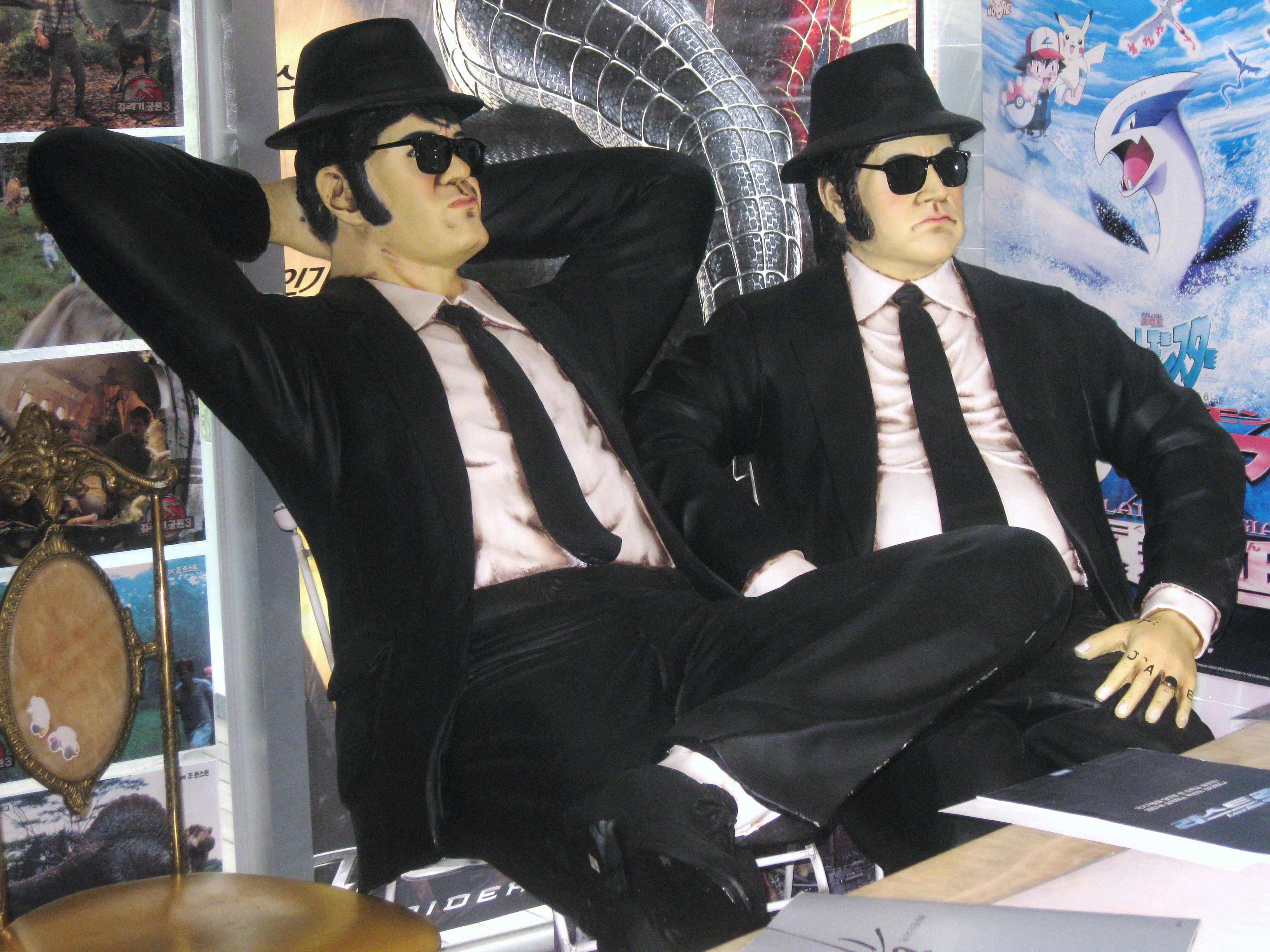 The Blues Brothers (Dan Aykroyd and John Belushi).